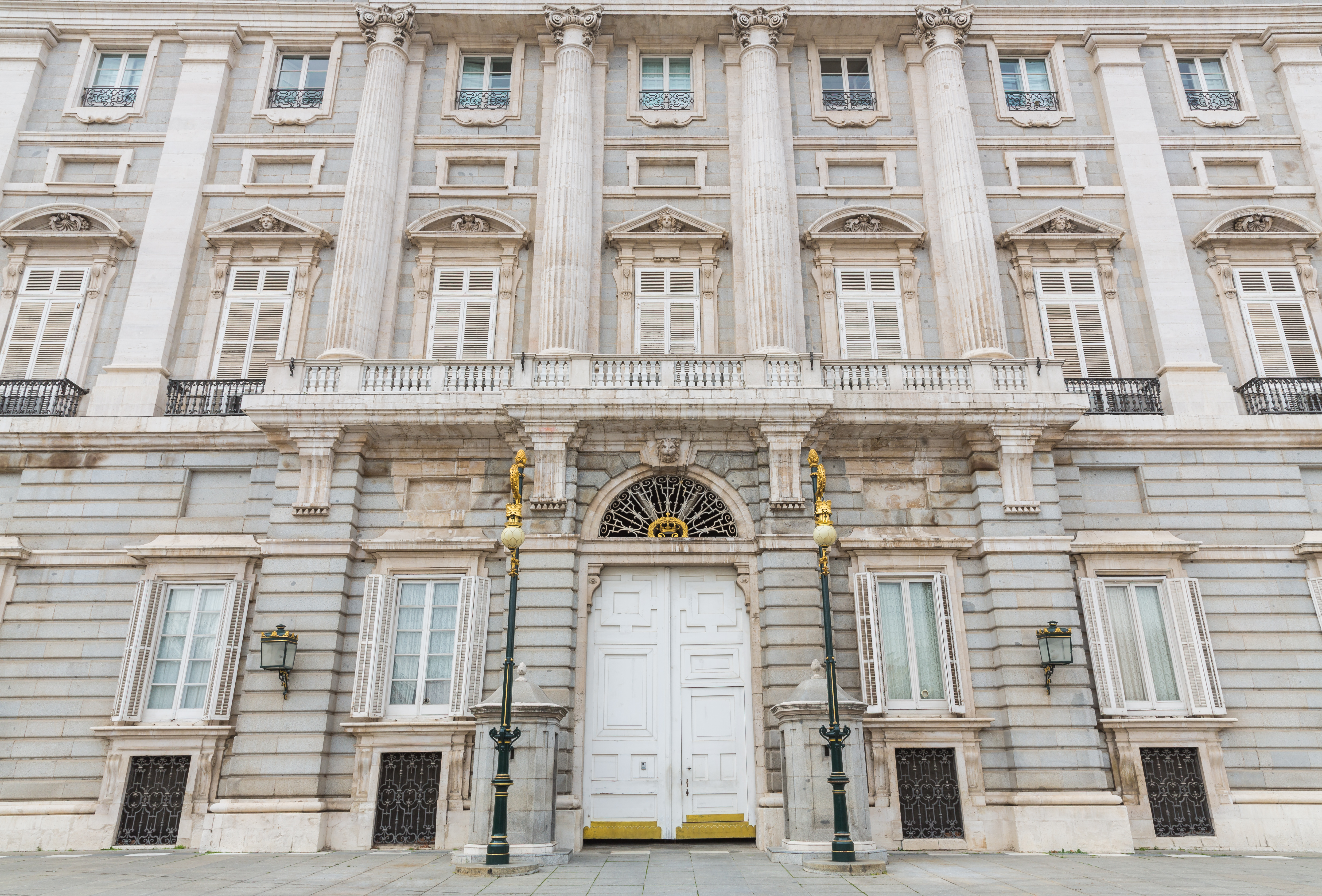 Royal Palace, Madrid, Spain